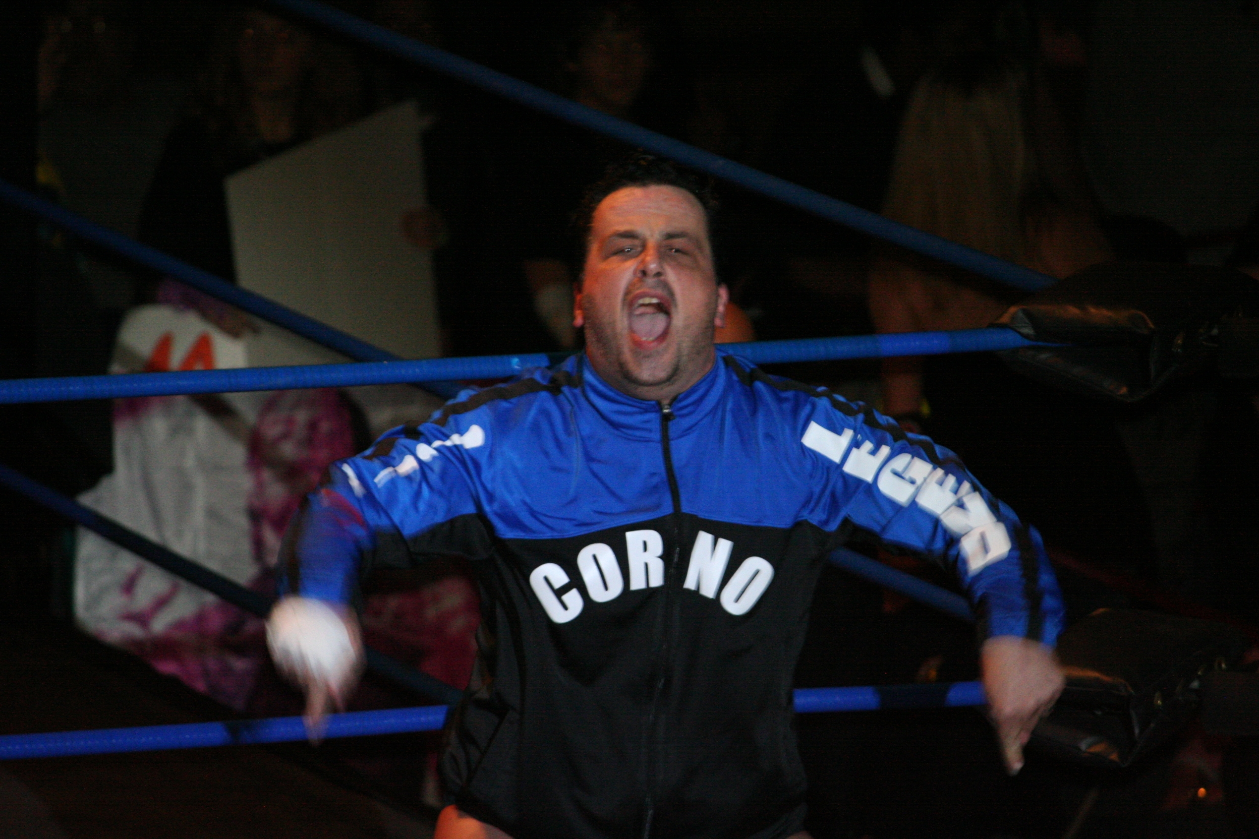 Steve Corino in 2012